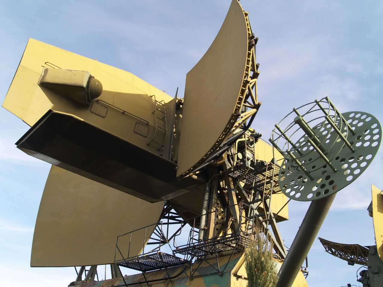 The fire control radar of the S-200 system, the 5N62 (NATO: Square Pair) CW H band radar has a range is 270 km, displayed in the Army History Museum and Park in Kecel, Hungary.